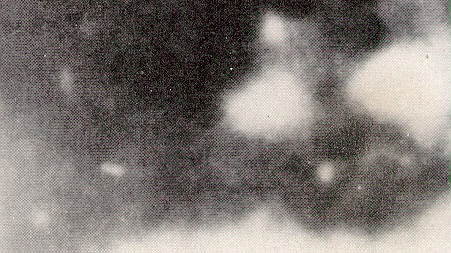 An enlargement of the Badge Man image from the Moorman photograph